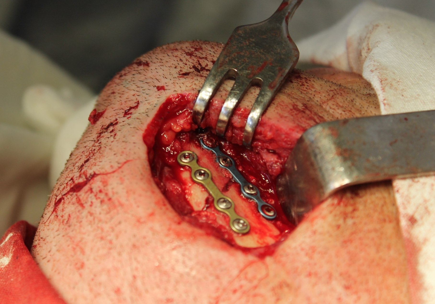 The surgical treatment of mandibular angle fracture. Fixation of the bone fragments by the plates. The principles of osteosynthesis are stability (immobility of the fragments that creates the conditions for bones coalescence) and functionality. The plates color is like the colors of the flag of Ukraine.